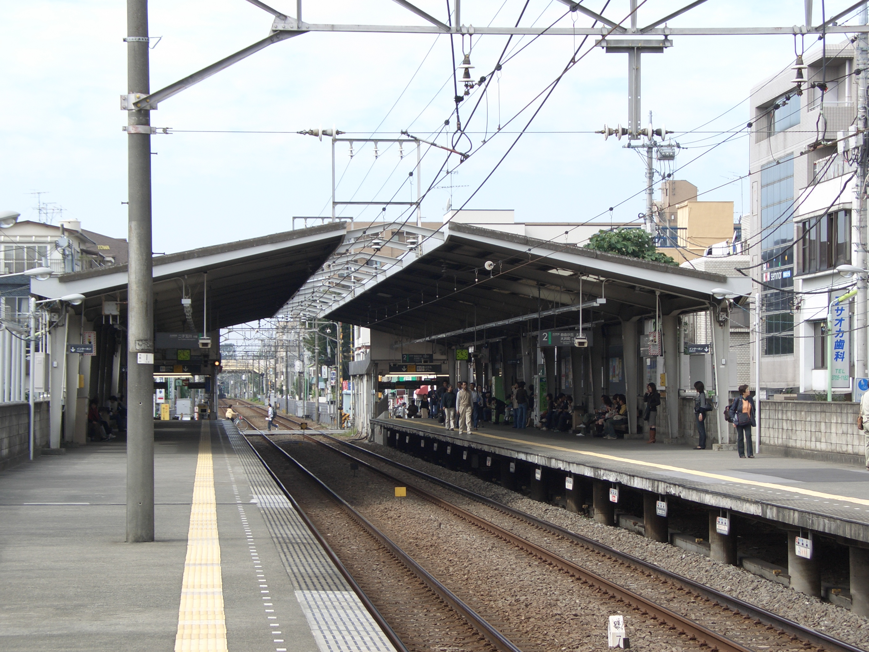 Description（説明）: Tokyu Ōimachi line Oyamadai Station platform（東急大井町線 尾山台駅 プラットホーム） Source（出典）: Tokyu Ōimachi line Oyamadai Station（東急大井町線 尾山台駅） Photographer/Painter（制作者）: yaguchi（矢口） Date（製作日）: 2006-10-15